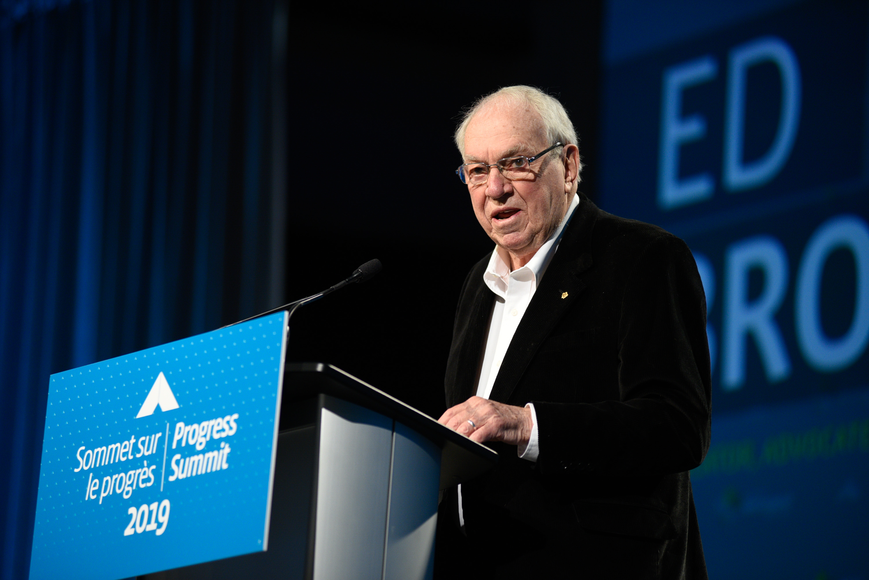 Photo of Ed Broadbent delivering opening remarks at the Broadbent Institute's 2019 Progress Summit.